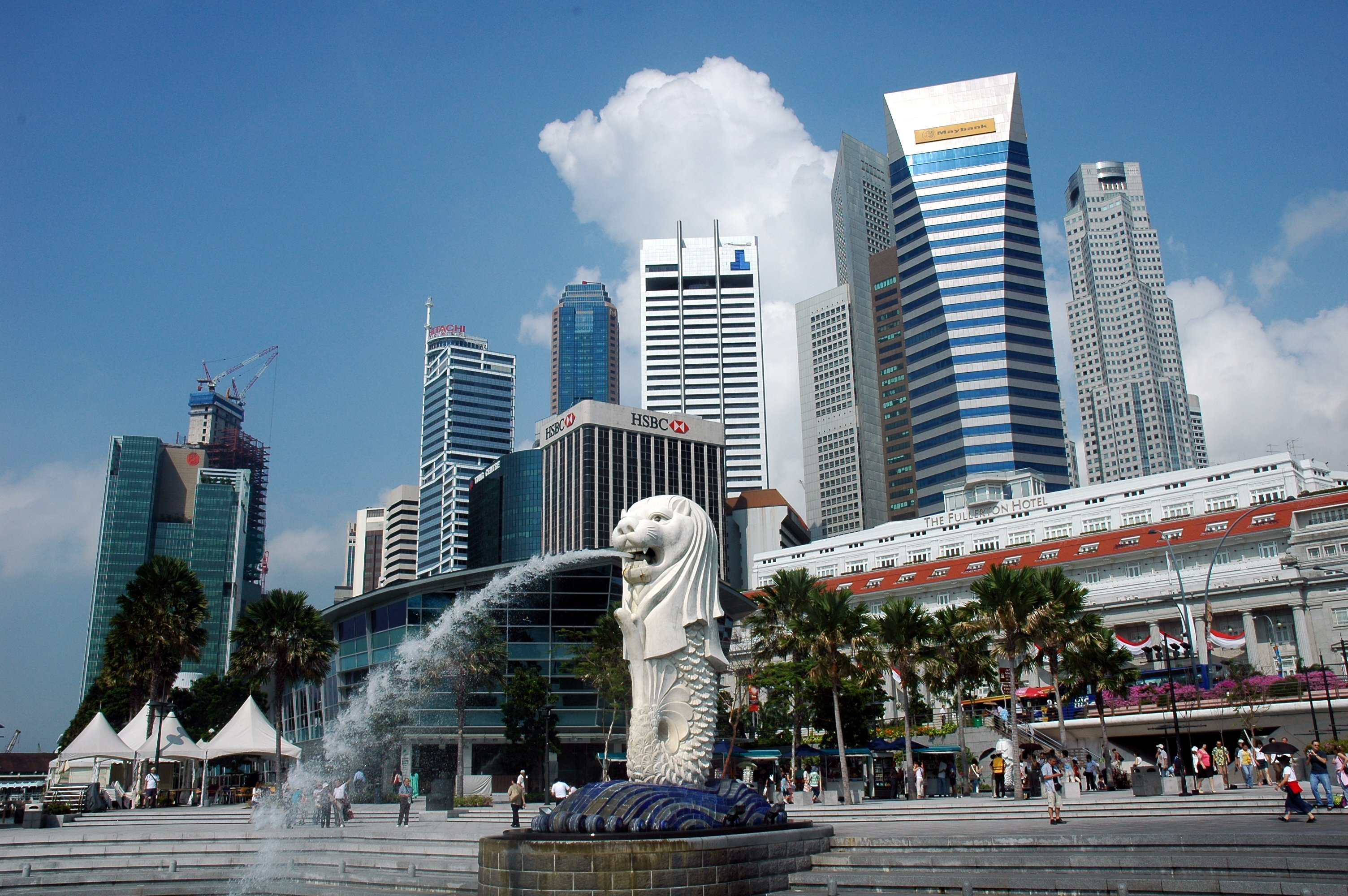 The Merlion and the Central Business District skyline, Singapore